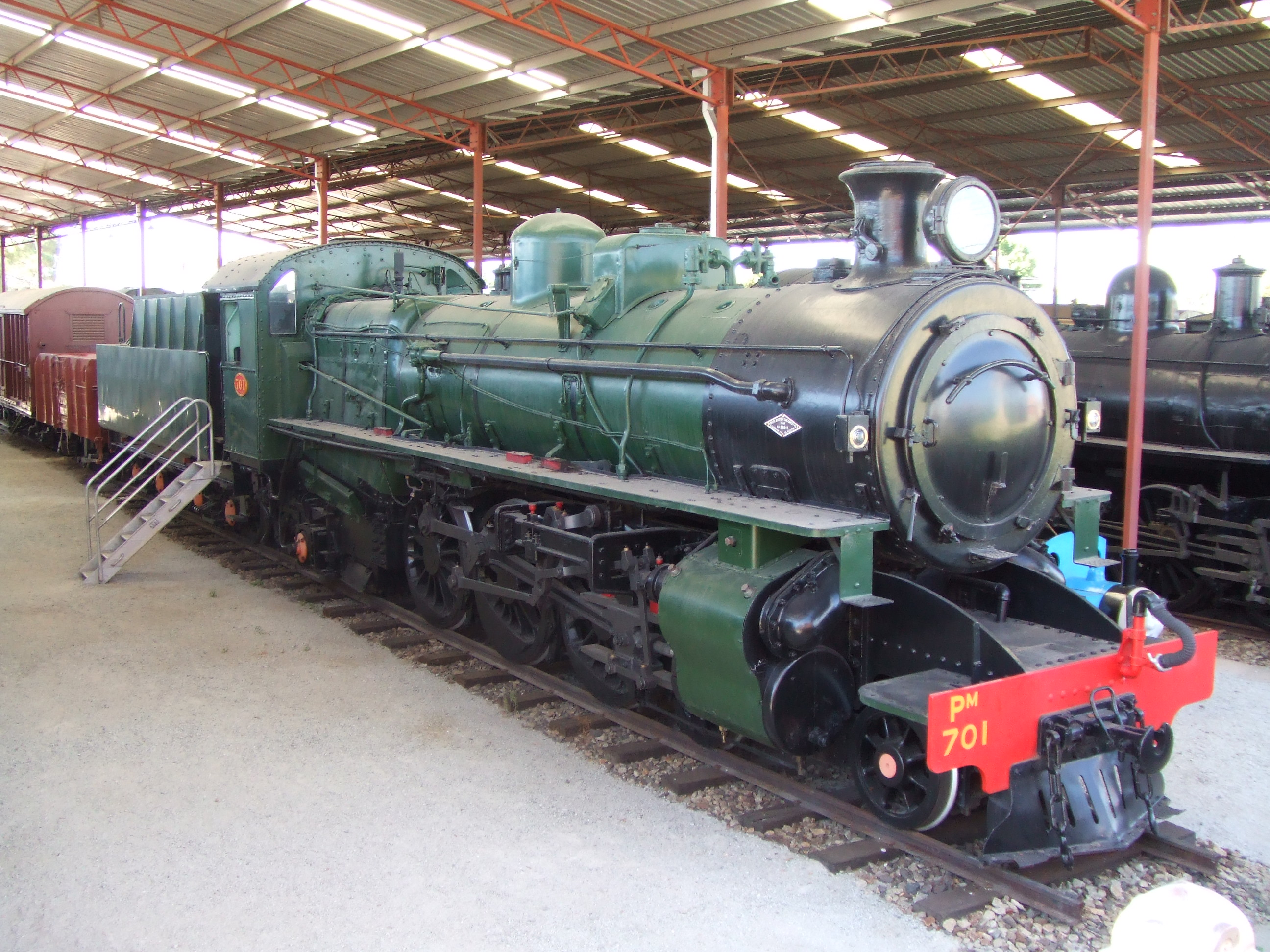 WAGR "Pm" 4-6-2 No.701 (North British 26545/1949). Improved version of "Pr" Pacific.4/06